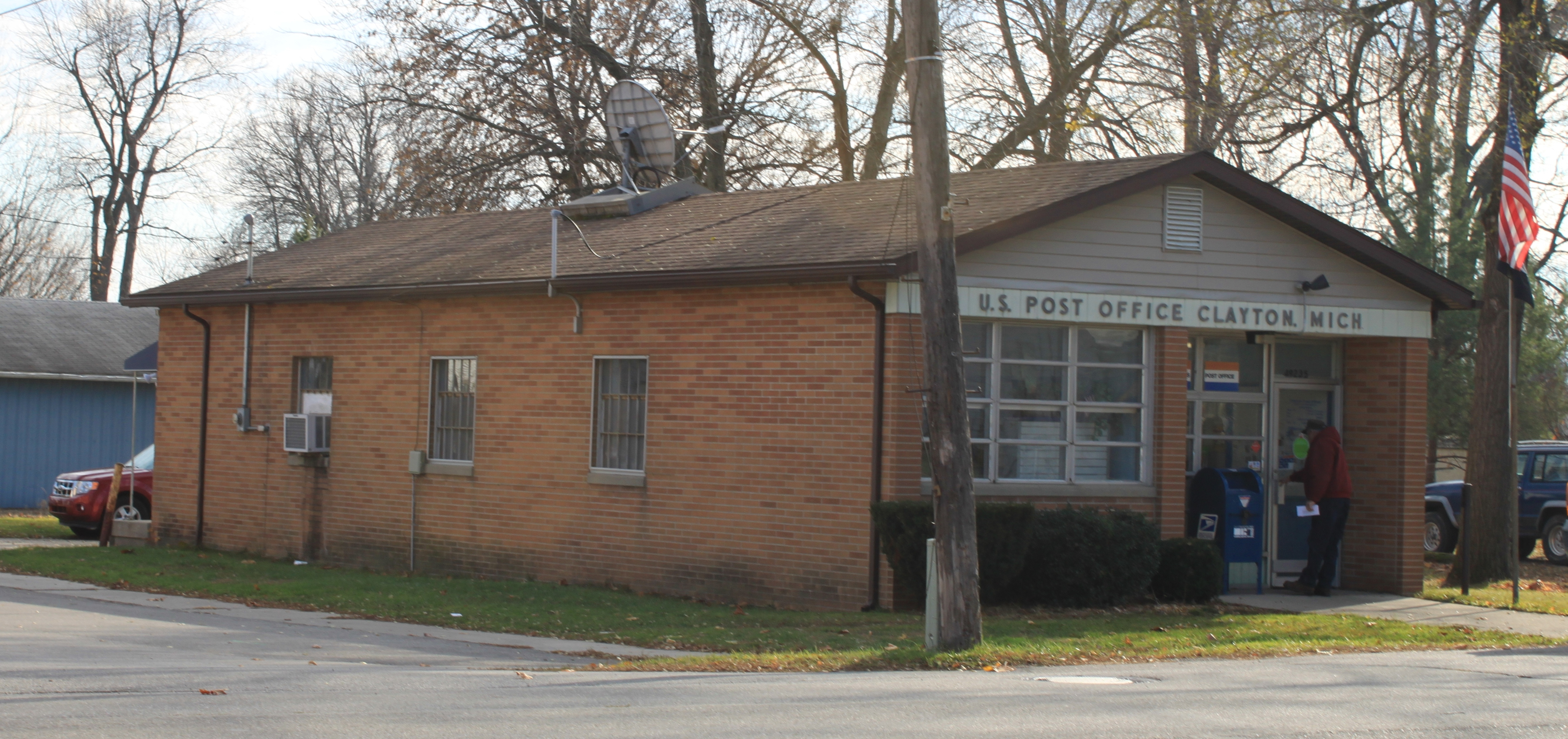 US Post Office, State Street, Clayton, Michigan